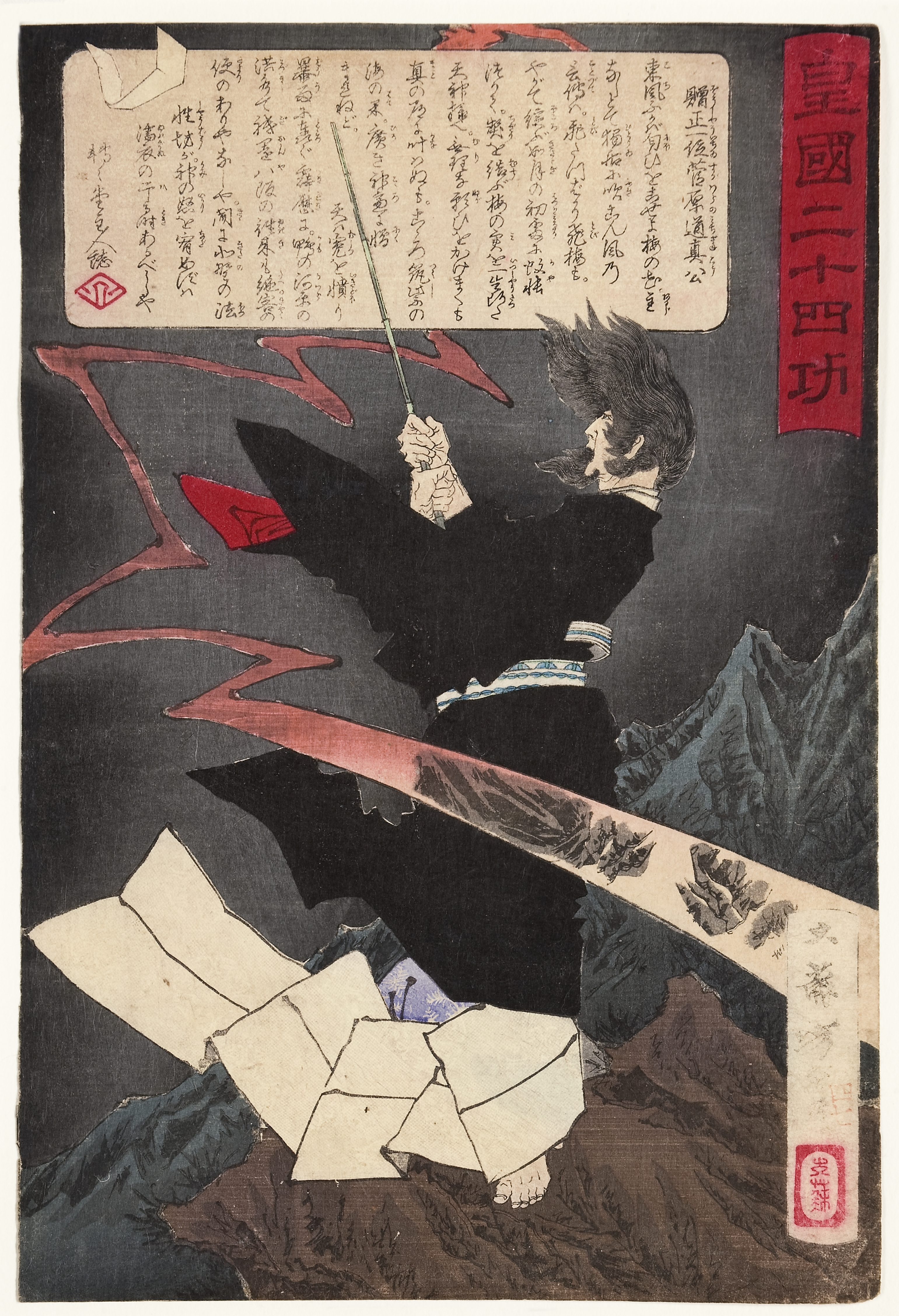 Accession Number: 1966.202.16 Display Artist: Tsukioka Yoshitoshi Display Title: Sugawara no Michizane praying for rain on Mount Tenpai Series Title: Twenty-four Accomplishments in Imperial Japan Suite Name: Kokoku nijushiko Creation Date: 1881 Height: 12 13/16 in. Width: 8 5/8 in. Display Dimensions: 12 13/16 in. x 8 5/8 in. (32.54 cm x 21.91 cm) Publisher: Tsuda Genshichi Credit Line: Gift of Dr. Paul S. Anderson Collection: The San Diego Museum of Art